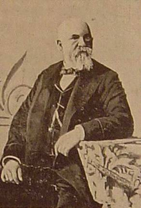 General Angel Martínez. Mexican army.